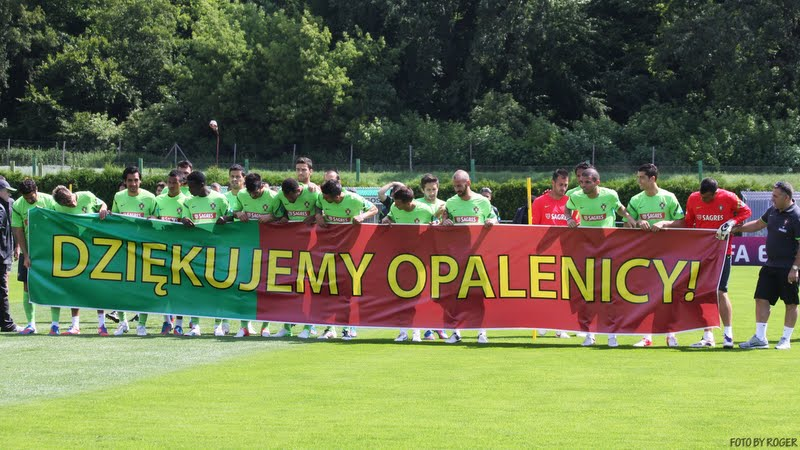 Portugal NT in Opalenica training camp (Poland), Euro 2012.